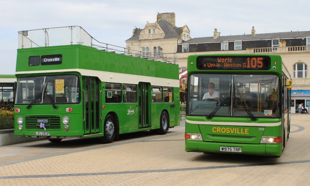 Crosville Motor Sevices' 309 (a dual-door Plaxton Pointer-bodied Dennis Dart registered W975 TRP) passes their heritage Briostol VRT open top (LEU 263P) which is parked in Princess Royal Square, Weston-super-Mare, on promotional duties.